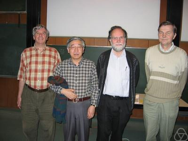 From left: Martin Neil Huxley, Yoichi Motohashi, Samuel James Patterson, Matti Jutila, Workshop Riemann Zeta Function, Oberwolfach 2004